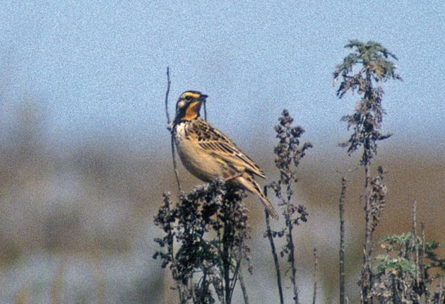 Abyssinian Longclaw (Macronyx flavicollis), Mt Geshe, Ethiopia, Nov 24 1999. An endemic of the Ethiopian highlands. Scanned from a slide.